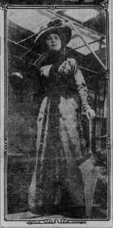 May Be First Women to Sail in an Aeroplane BRAVE GIRL AVIATOR Miss Geneve Shaffer, and the aeroplane which she and her brother, Cleve T. Shaffer, have constructed. Miss Shaffer expects to be the first woman in the world to sail in a flying machine.